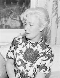 Bettina Gordon at The Lodge in 1968